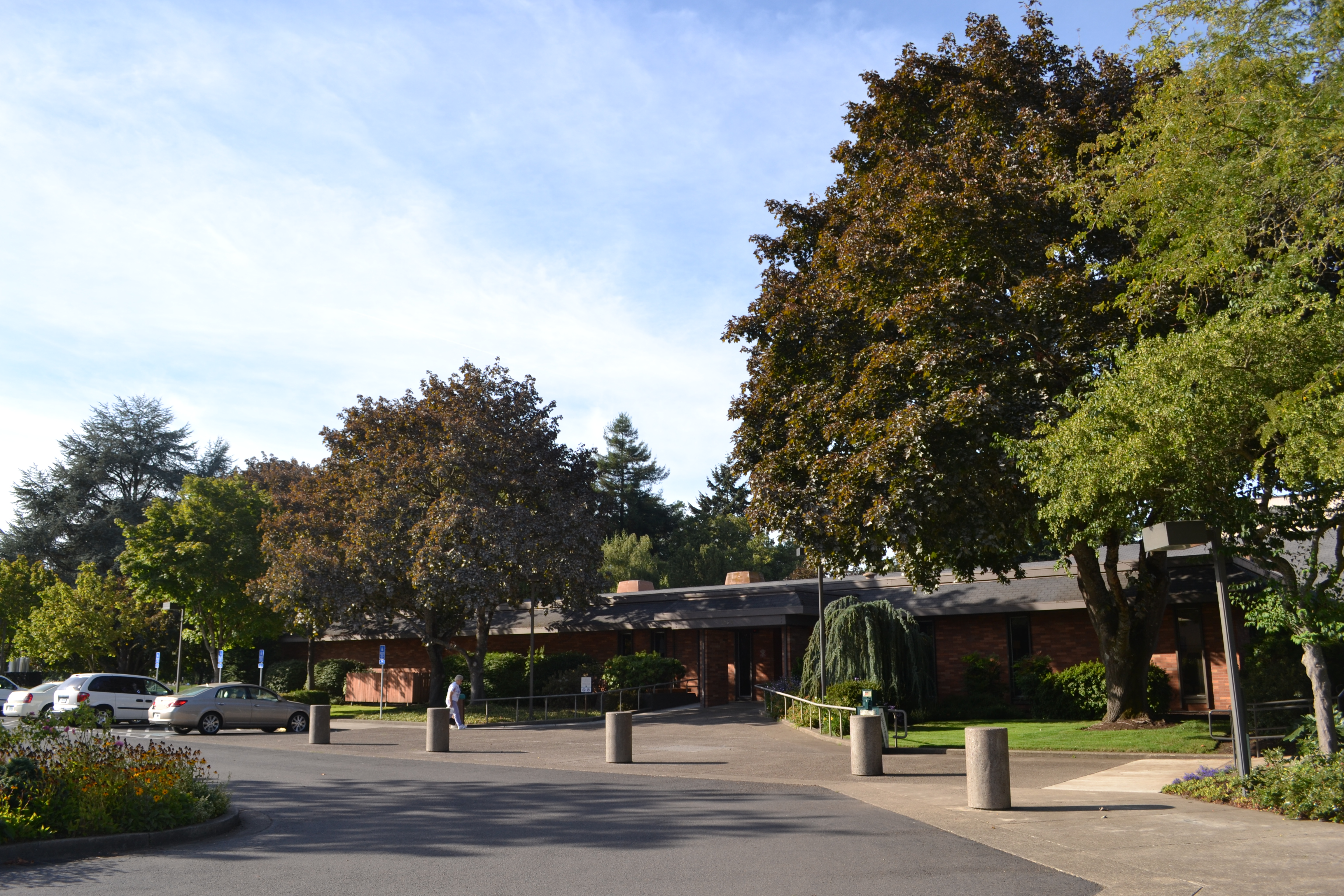 G Street entrance, McKenzie-Willamette Medical Center (Springfield, Oregon)